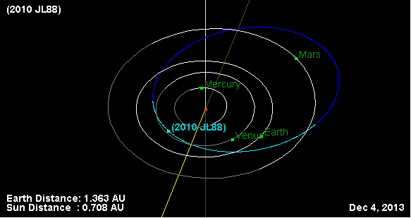 This diagram illustrates the orbit of the Near-Earth Asteroid 2010 JL88